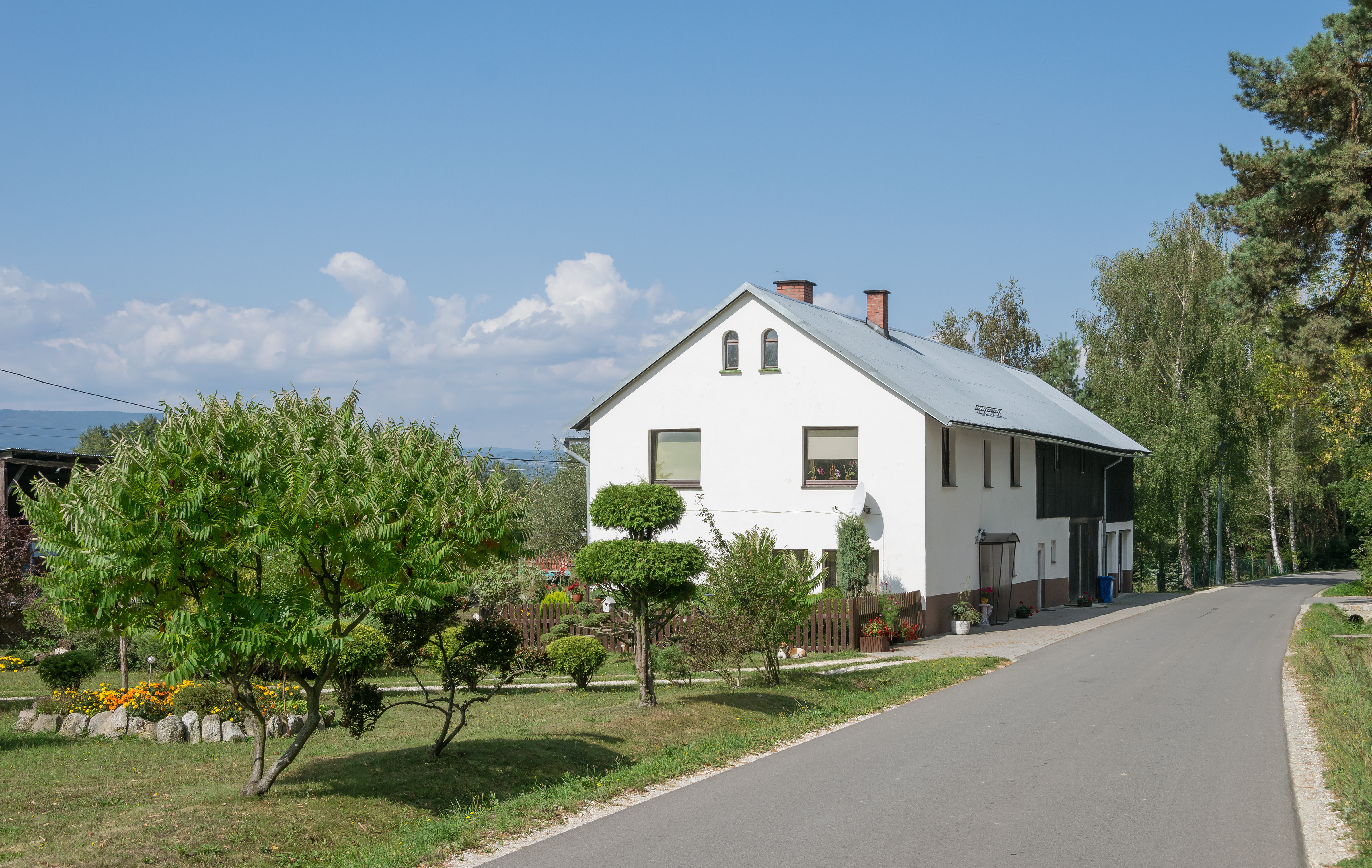 House No. 32 in Marianówka